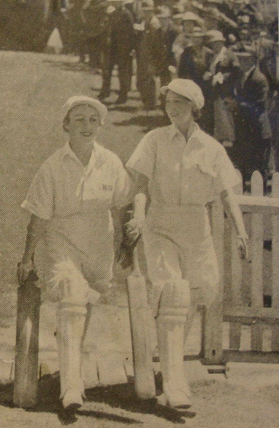 Ruby Monaghan and Hazel Pritchard head out to open for Australia, Australia v England, 2nd Test, Sydney, January 4, 1935